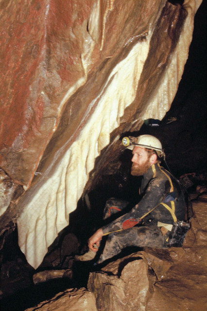 Shatter Cave, Stoke St Michael ,Som In Helectite Rift